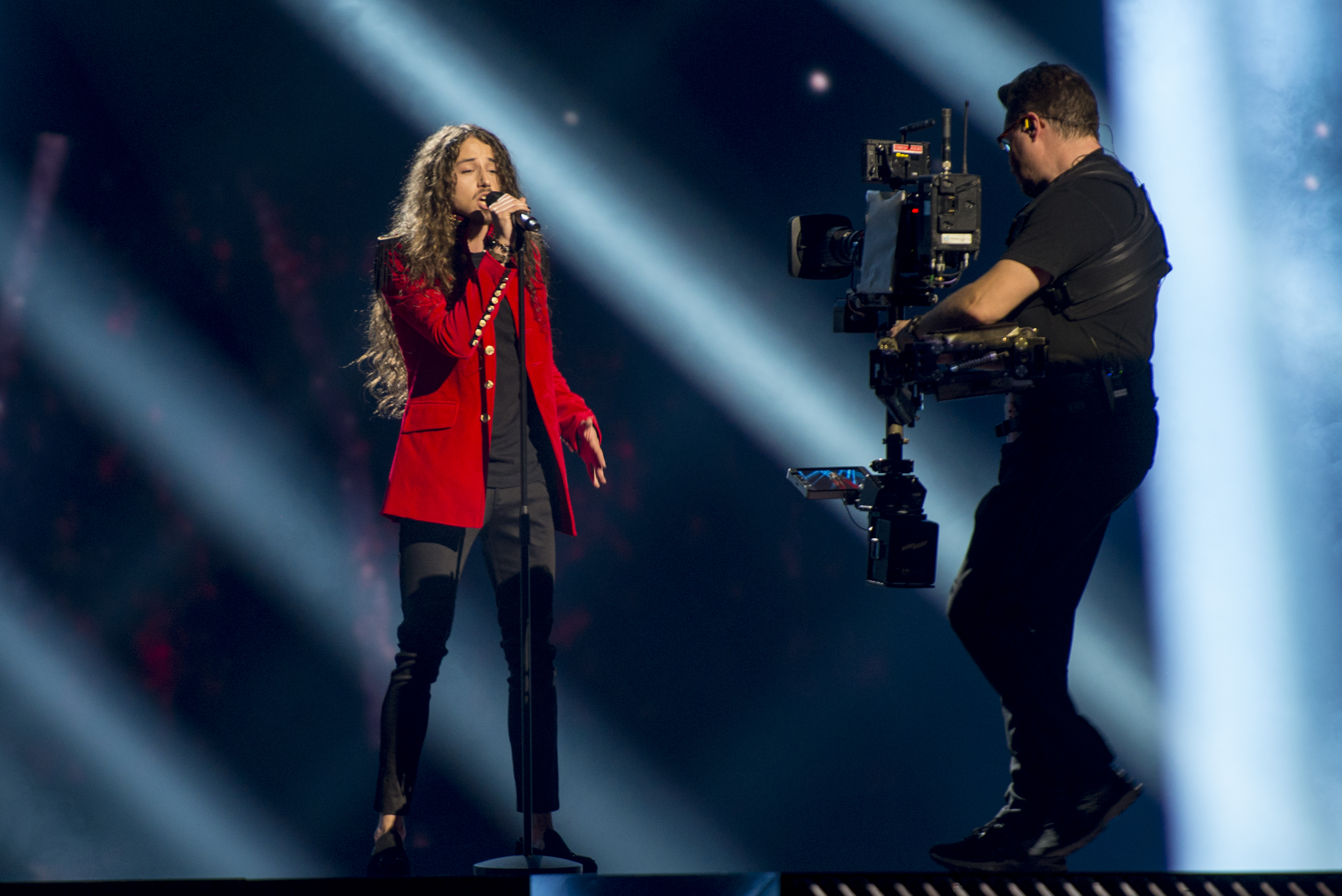 Michał Szpak representing Poland with the song "Color Of Your Life" during a rehearsal before the second semi final of the Eurovision Song Contest 2016 in Stockholm. (Help translate this text)